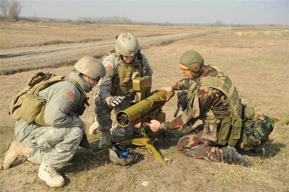 TTTBORFALVA, Hungary — A special forces soldier from the 34th Hungarian Special Forces Battalion gives an instruction on the 9K111 FAGOT 120mm wire guided missile anti-tank weapons system during weapons cross training with soldiers from the 1-10th Special Forces Group (SFG) March 19. These soldiers are participating in a Partnership Development Program between Hungarian Special Forces and 1-10th SFG in TTÃborfalva, Hungary. (U.S. Army photo by Staff Sgt. Isaac A. Graham)